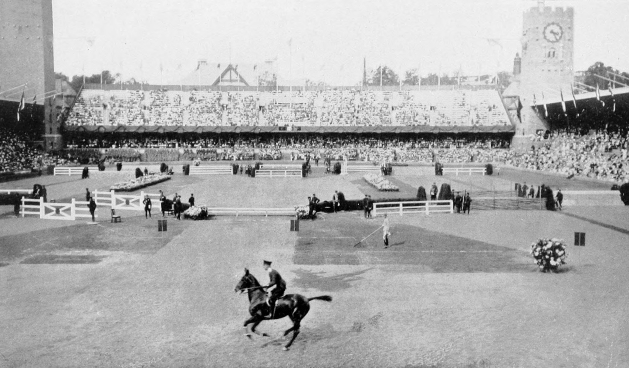 The stadium during the prize jumping. In the foreground H.R.H. Prince Friedrich Karl of Prussia